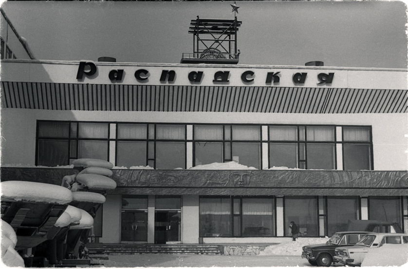 Mine "Raspadskaya". Kuznetsk coal basin. Mezhdurechensk. Kemerovo region. USSR. Photo 1984.